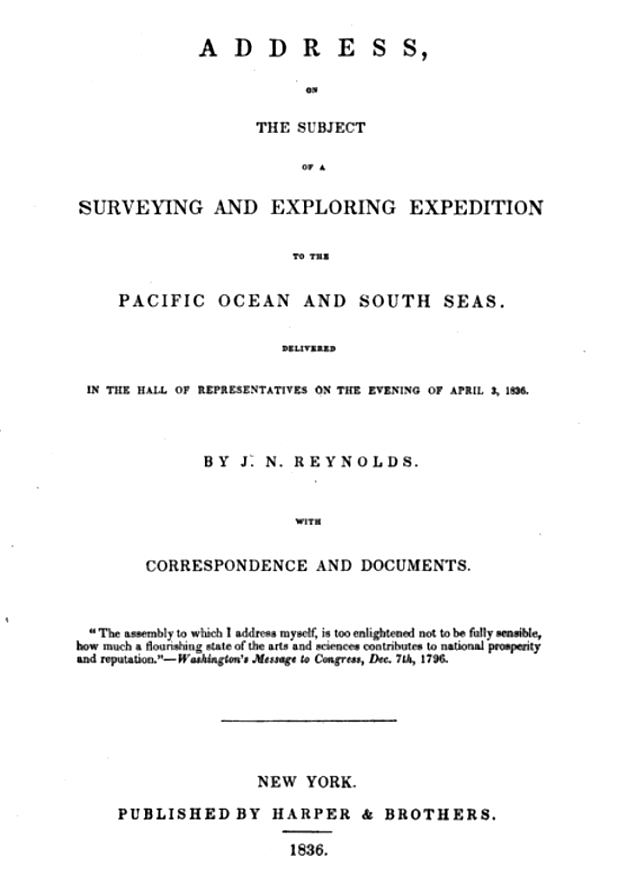 Title page for Address on the Subject of a Surveying and Exploring Expedition to the Pacific Ocean and South Seas: Delivered in the Hall of Representatives on the Evening of April 3, 1836 by Jeremiah N. Reynolds. Image has been cleaned up from original source (removed some mark-ups, including a stamp imprint). Published by Harper and Bros.